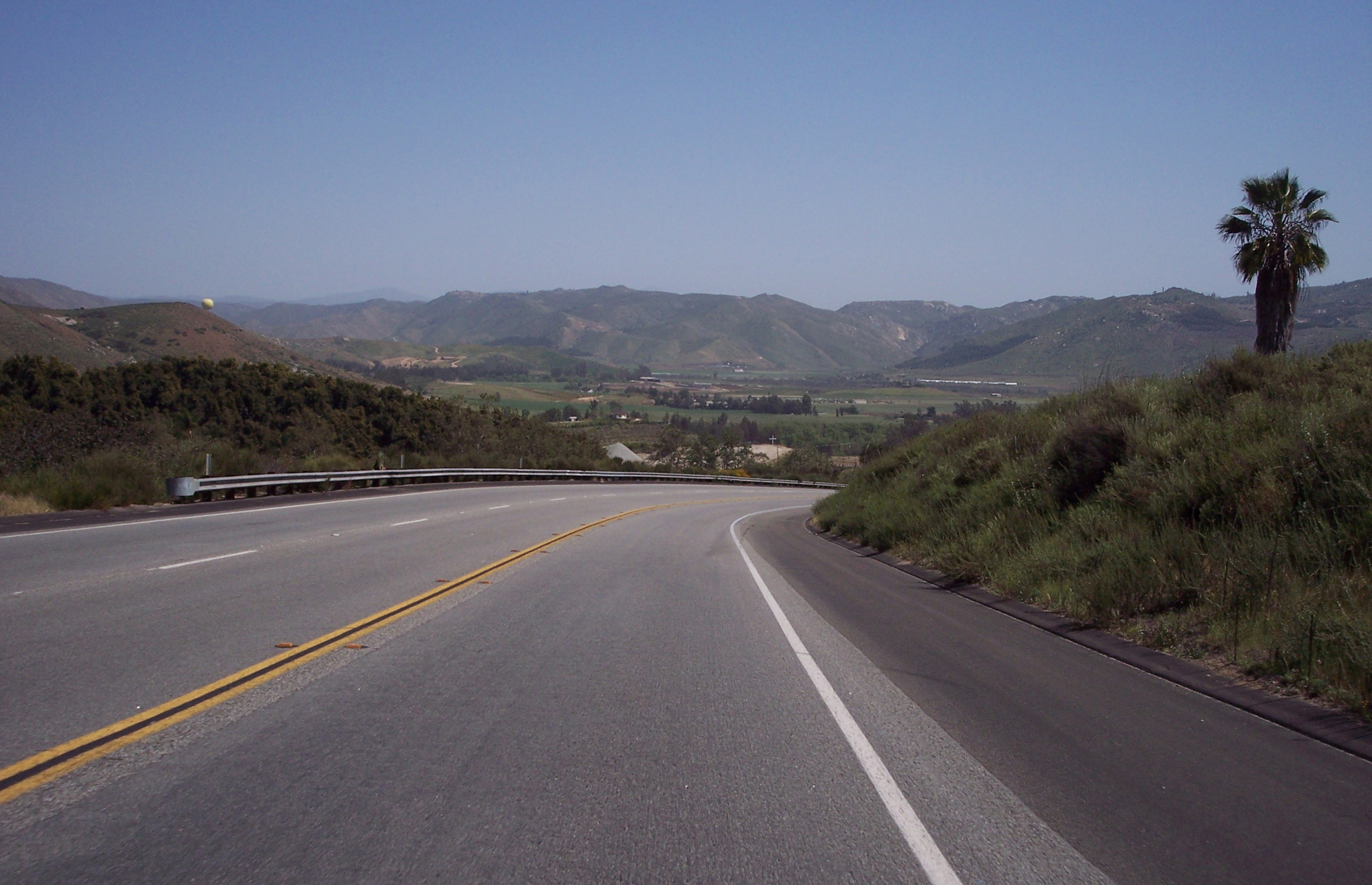 California SR 78 seen eastwards, east of Escondido.